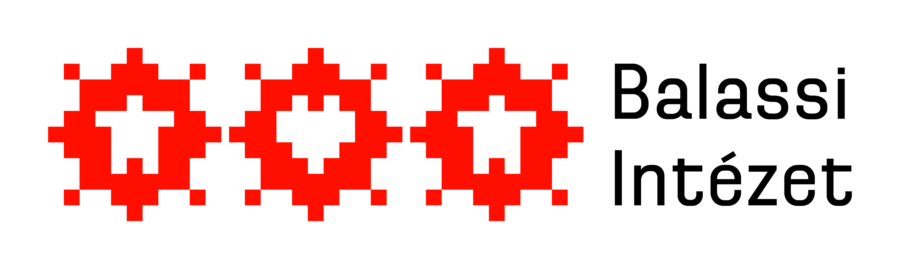 Logo of the Balassi Institute (hungarian text)